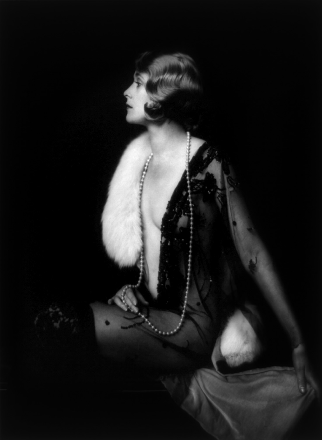 Muriel or Murrel or Merle Finlay or Finley or Finely, 3/4 length, seated, left profile; scantily dressed in sheer costume wearing long string of beads and fur over shoulder. Ziegfeld girl. Photograph by Alfred Cheney Johnston between 1918 and 1939, but most likely 1927-29.